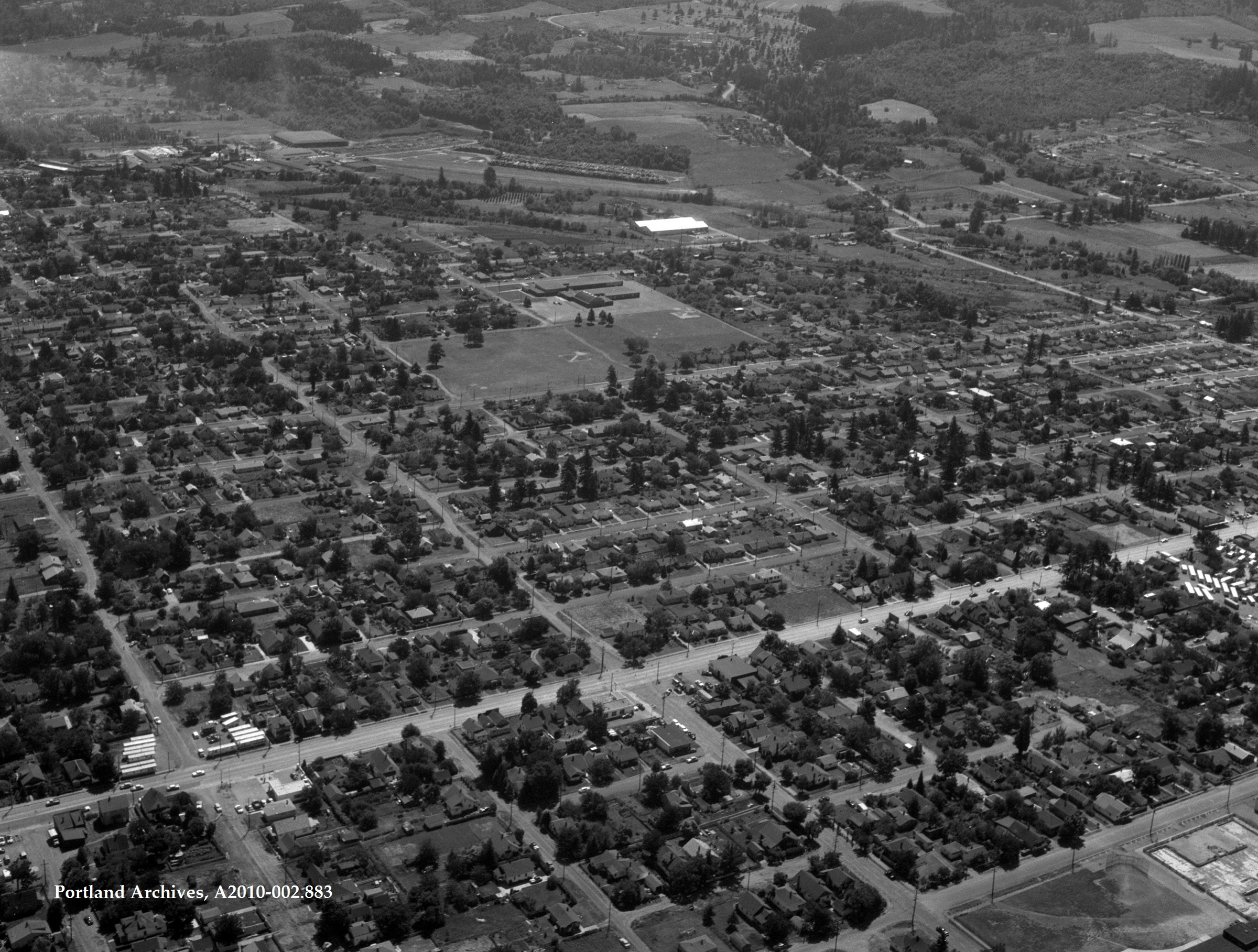 City Archives photo of the Brentwood-Darlington area Portland, OR